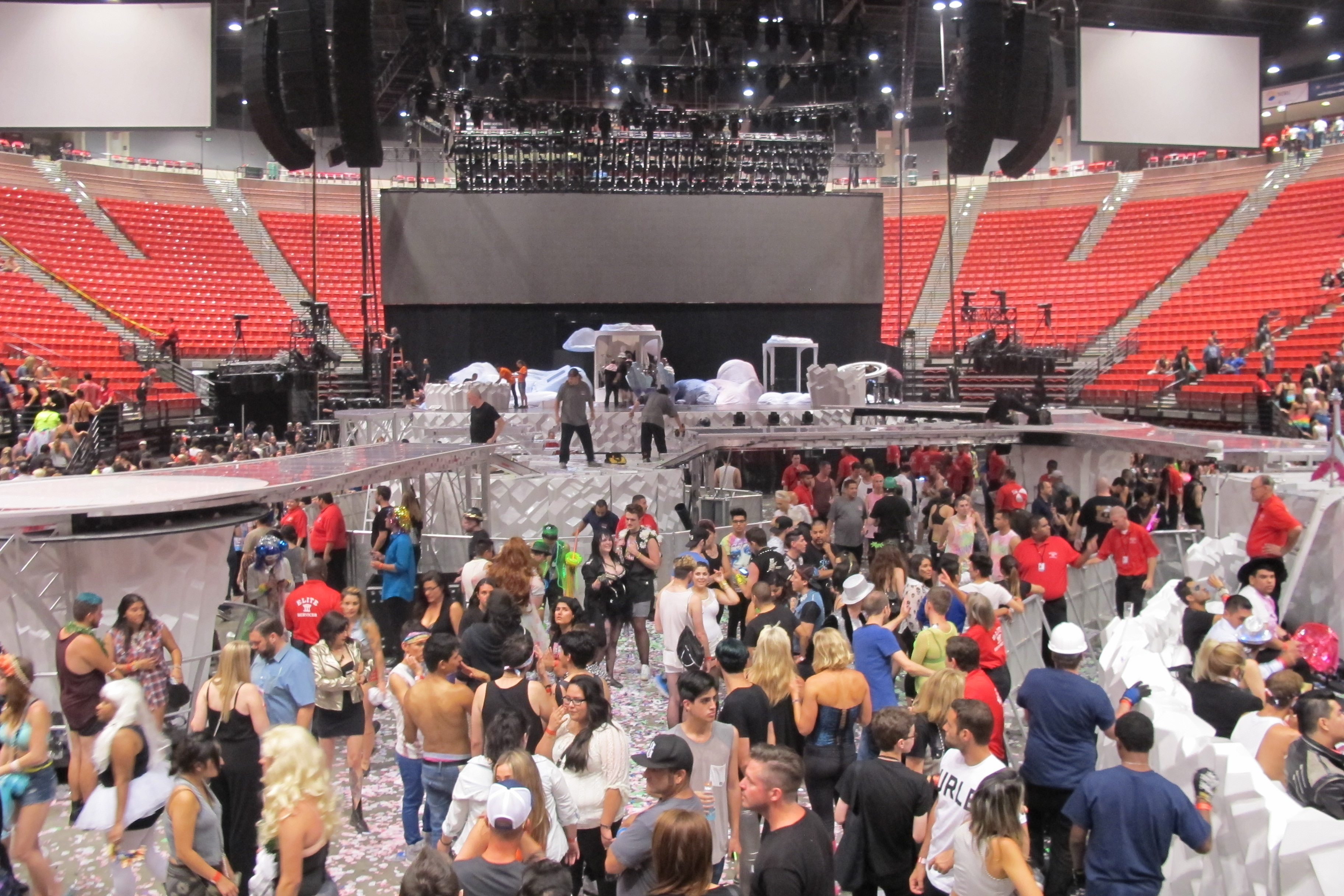 IMG_8342 Lady Gaga performing at ArtRave: The Artpop Ball of San Diego